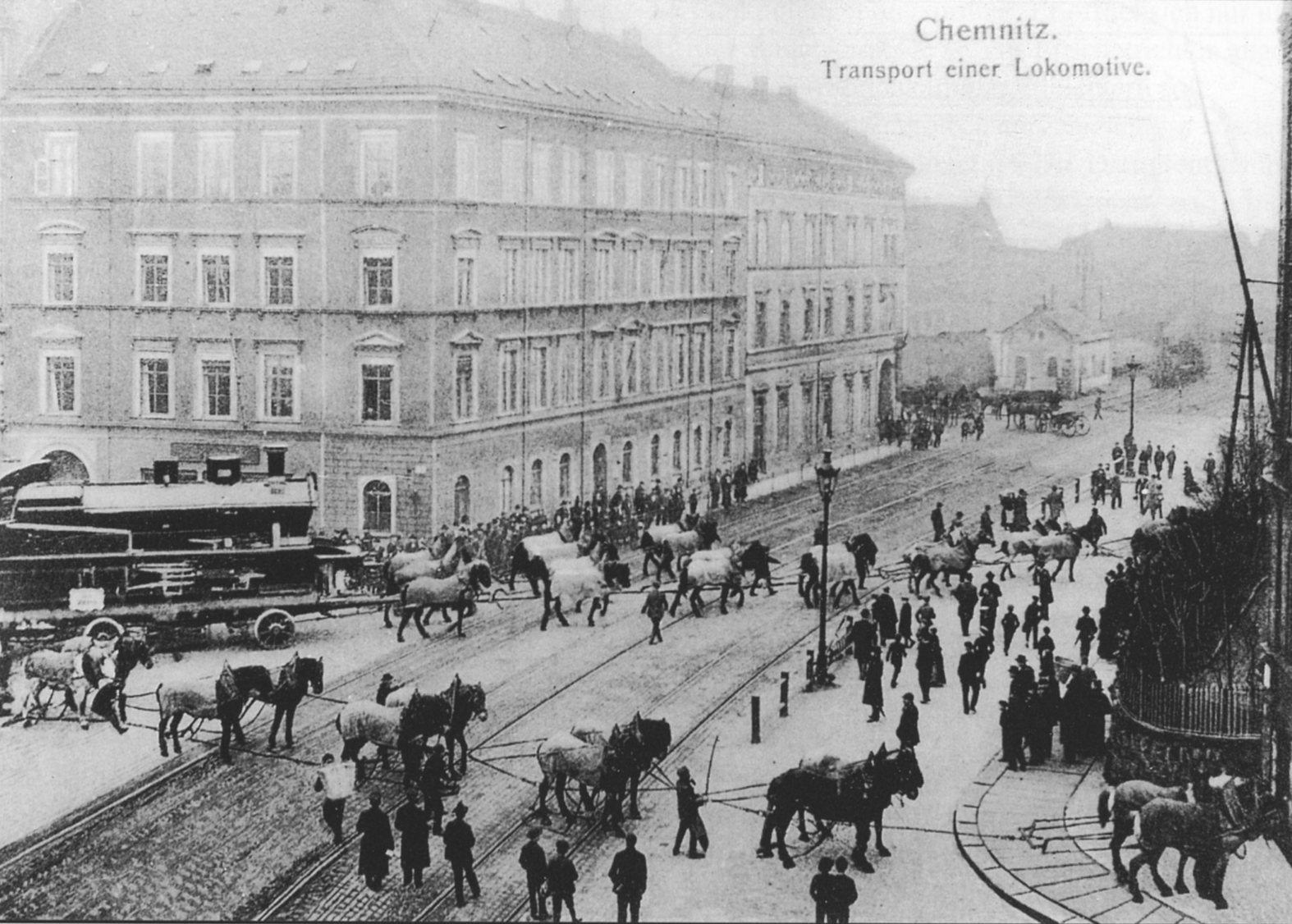 Transporting Saxon X V 175 from Sächsischen Maschinenfabrik vormals R. Hartmann to Chemnitz Hauptbahnhof.